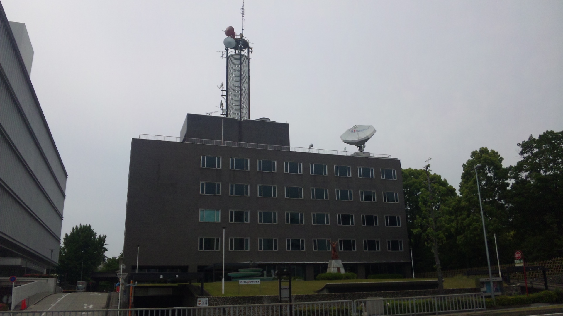 Me-tele Annex(The old main office building in Nagoya Broadcasting Network(NBN))